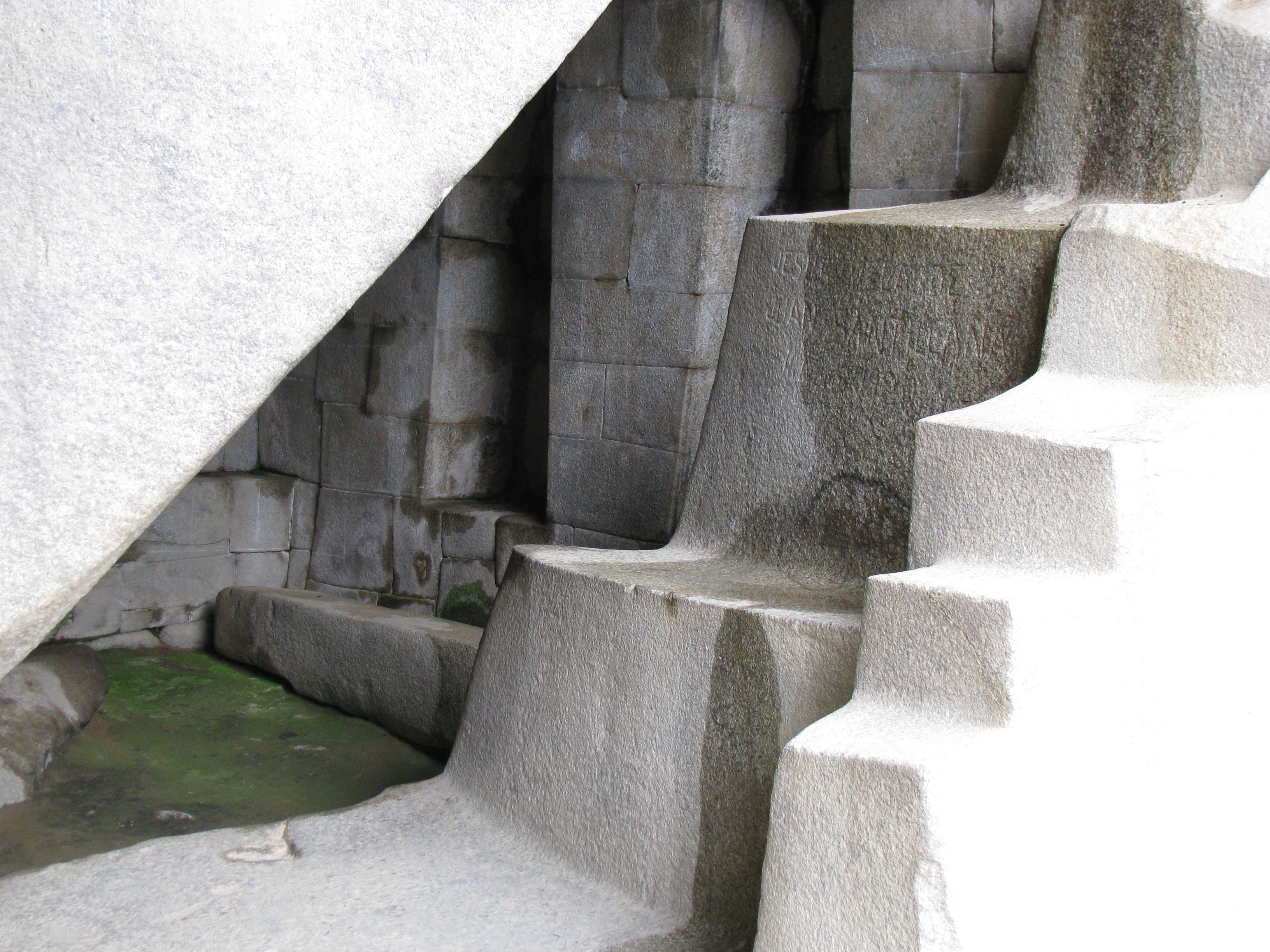 MachuPicchu